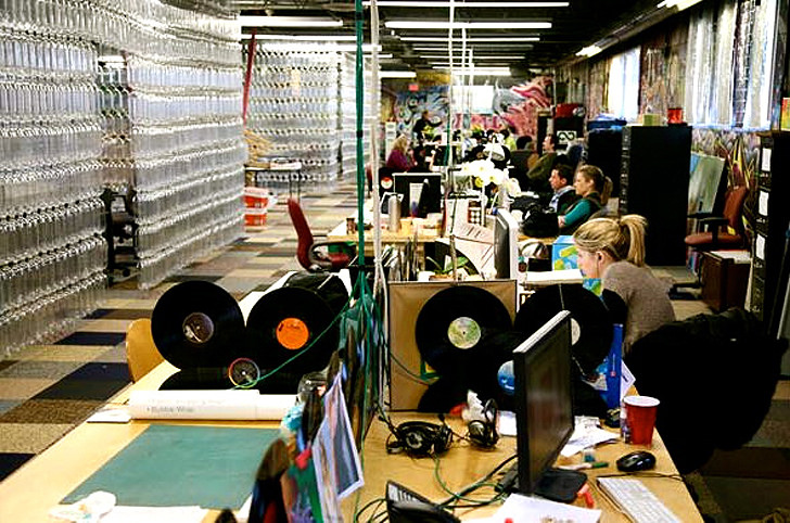 Inside of the TerraCycle HQ office in Trenton, New Jersey.